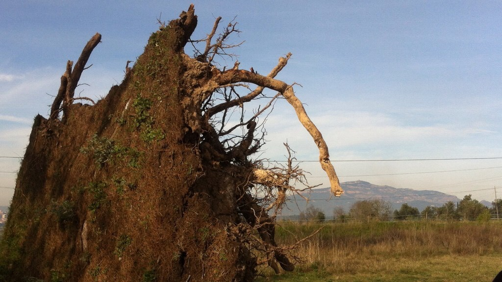 Temporal vent Vallès 2014